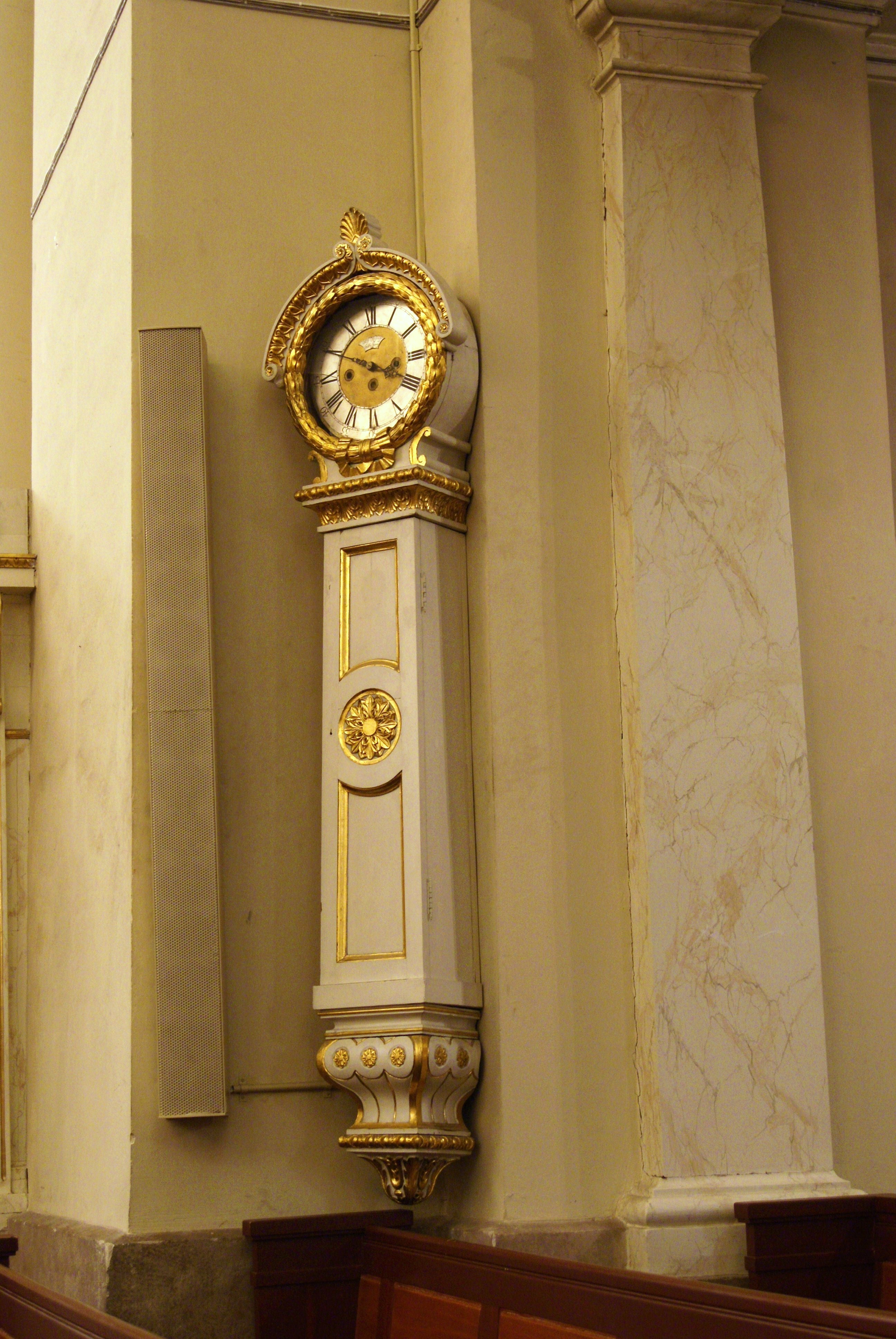 In Gothenburg Cathedral hangs a wall clock from around 1770. It was made by clock maker Olaf Rising.